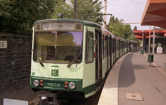 Stadtbahn car of the SSB at Bad Godesberg-Rheinallee